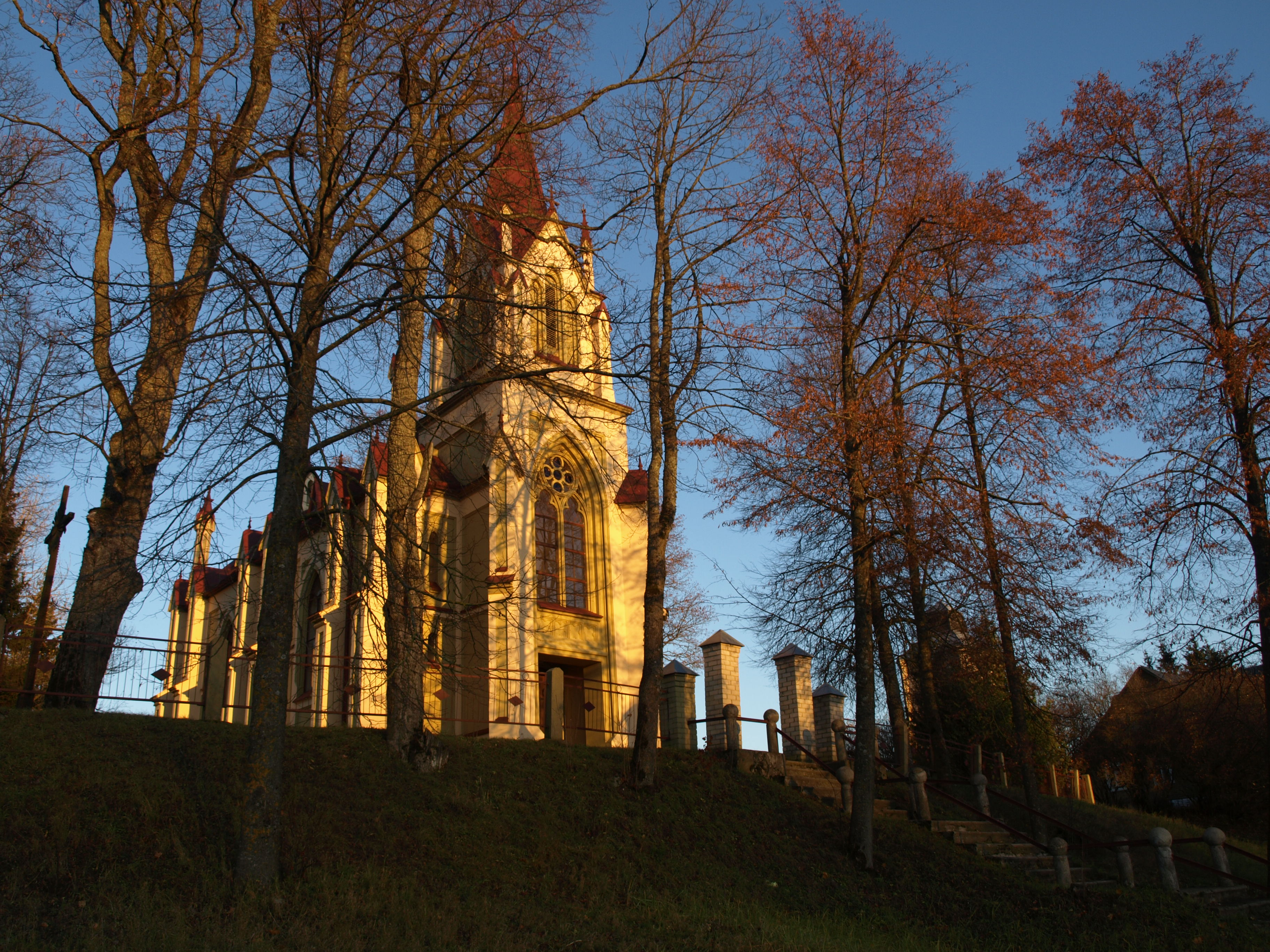 Šešuolėliai church, Širvintos district, Lithuania